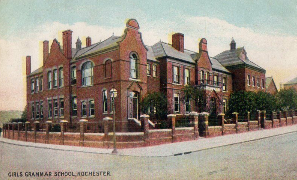 Rochester Grammar School for Girls, Kent, England. 1909 postcard. Maidstone Road building, used 1888-1990.